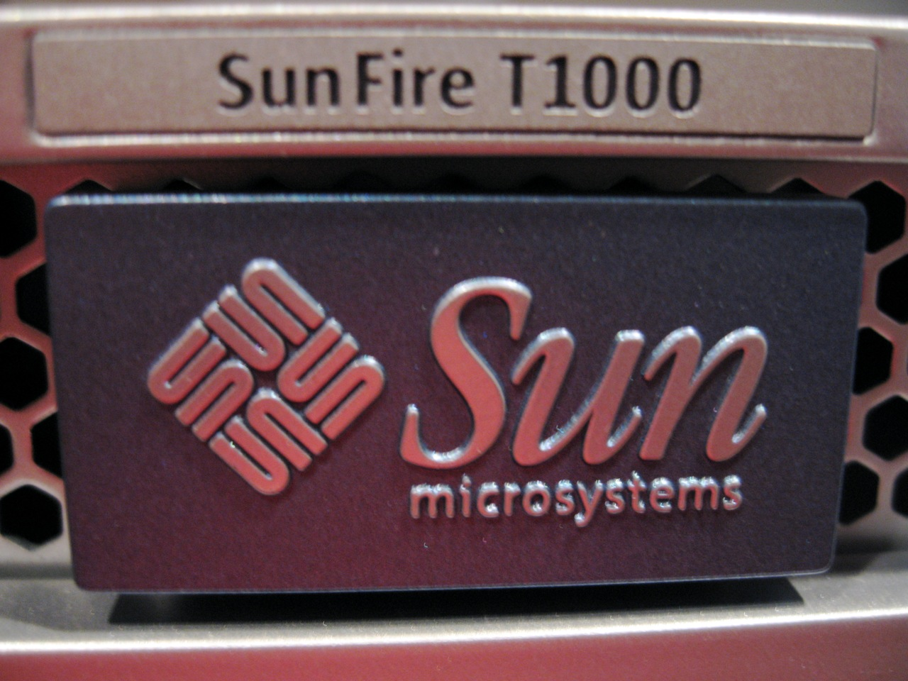 Sun Logo and SunFire T1000 Badge